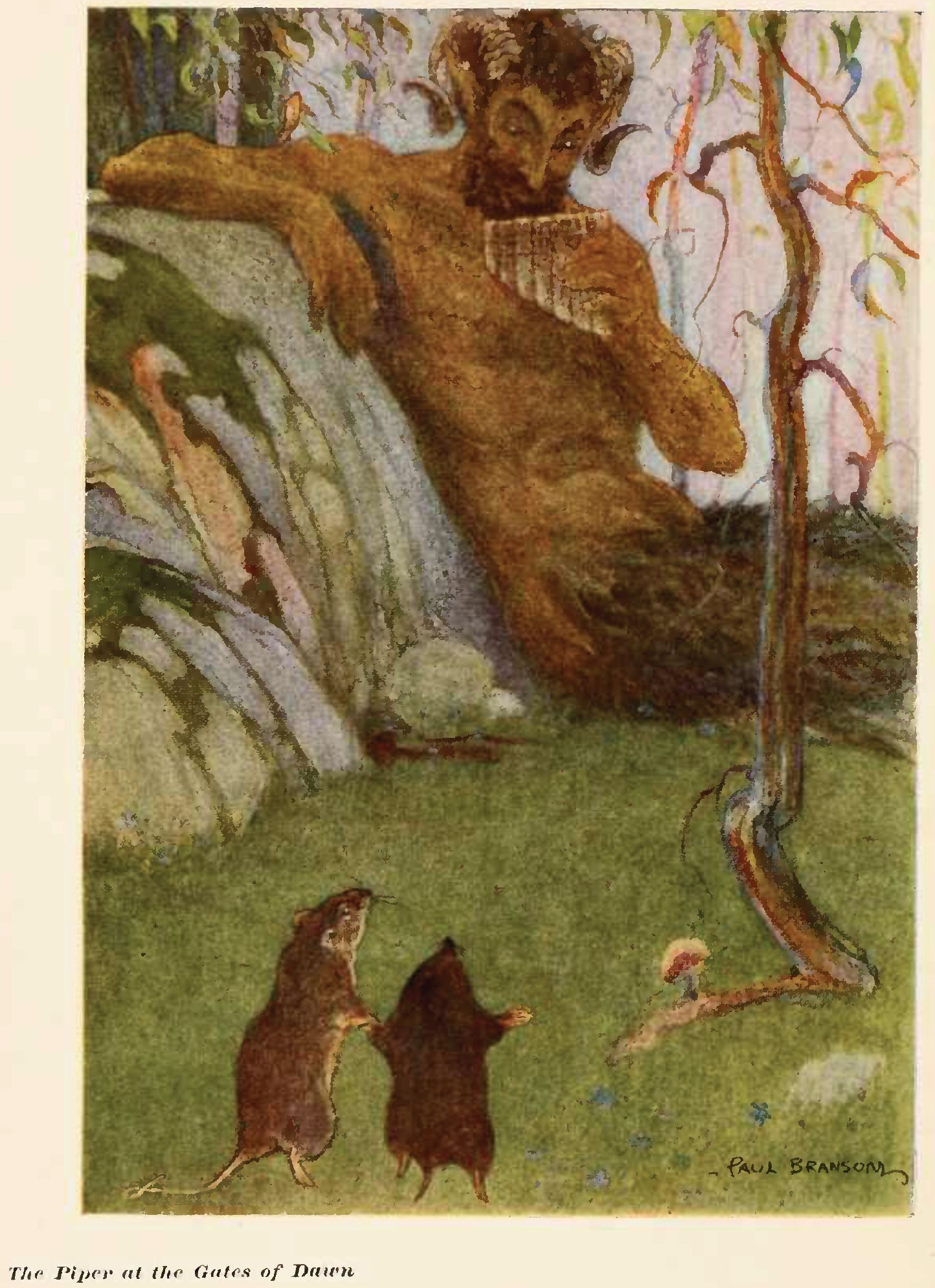 An illustration by Paul Bransom from the 1913 edition of The Wind in the Willows.